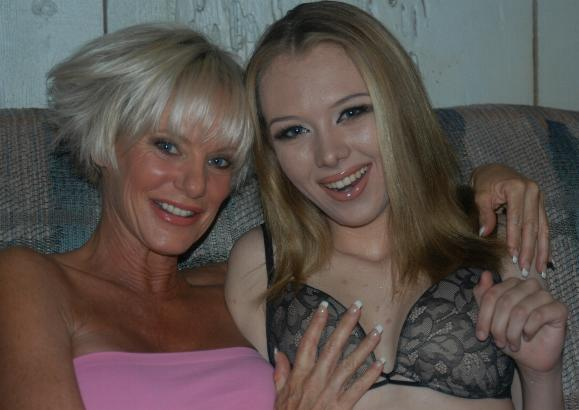 Cara Lott and Katrice Keys (more familiarly known as Jeanie Marie Sullivan) at a World Modelling talent call